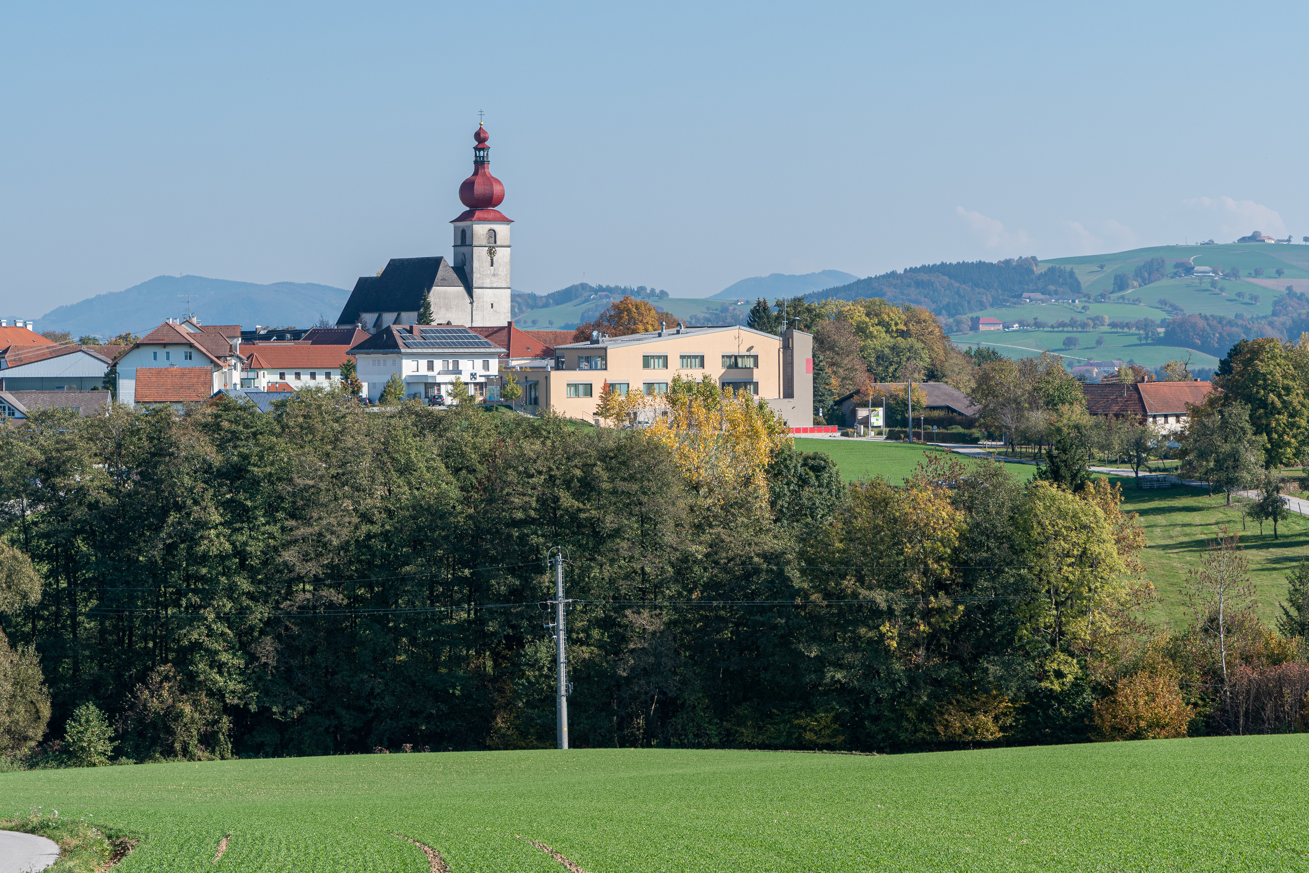 Waldneukirchen is a community in Upper Austria in Bezirk Steyr-Land. Waldneukirchen